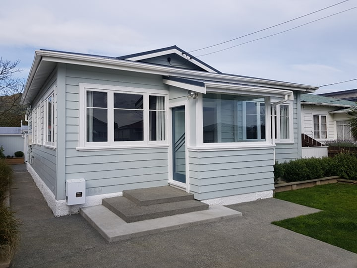 A typical style of Railway House in Moera.